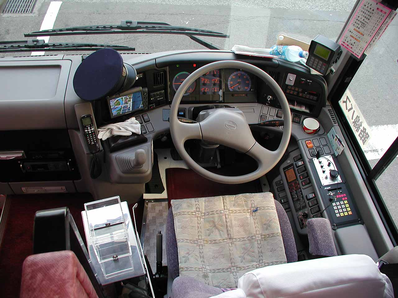 Cockpit of Hino Selega R (KL-RU1FSEA) Operater: Kanto Jidosha License plate:TGU200 KA-221（宇都宮200か・221）